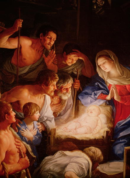 seems to be a reversed image of a small section of the large altarpiece in the Certosa in Naples [1], or a different version of that subject.